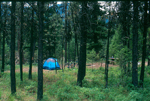 A campsite in the Yellow Pine Campground in the Cascade Ranger District of Boise National Forest, Idaho.